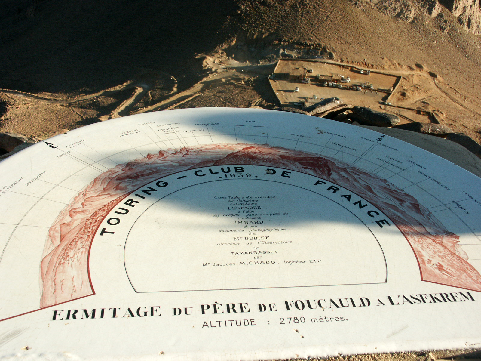 Panel of the sourrounding mountains of the ermitage of Foucauld on the Assekrem mountain (Hoggar, South of Algeria). At the bottom a refuge can be seen